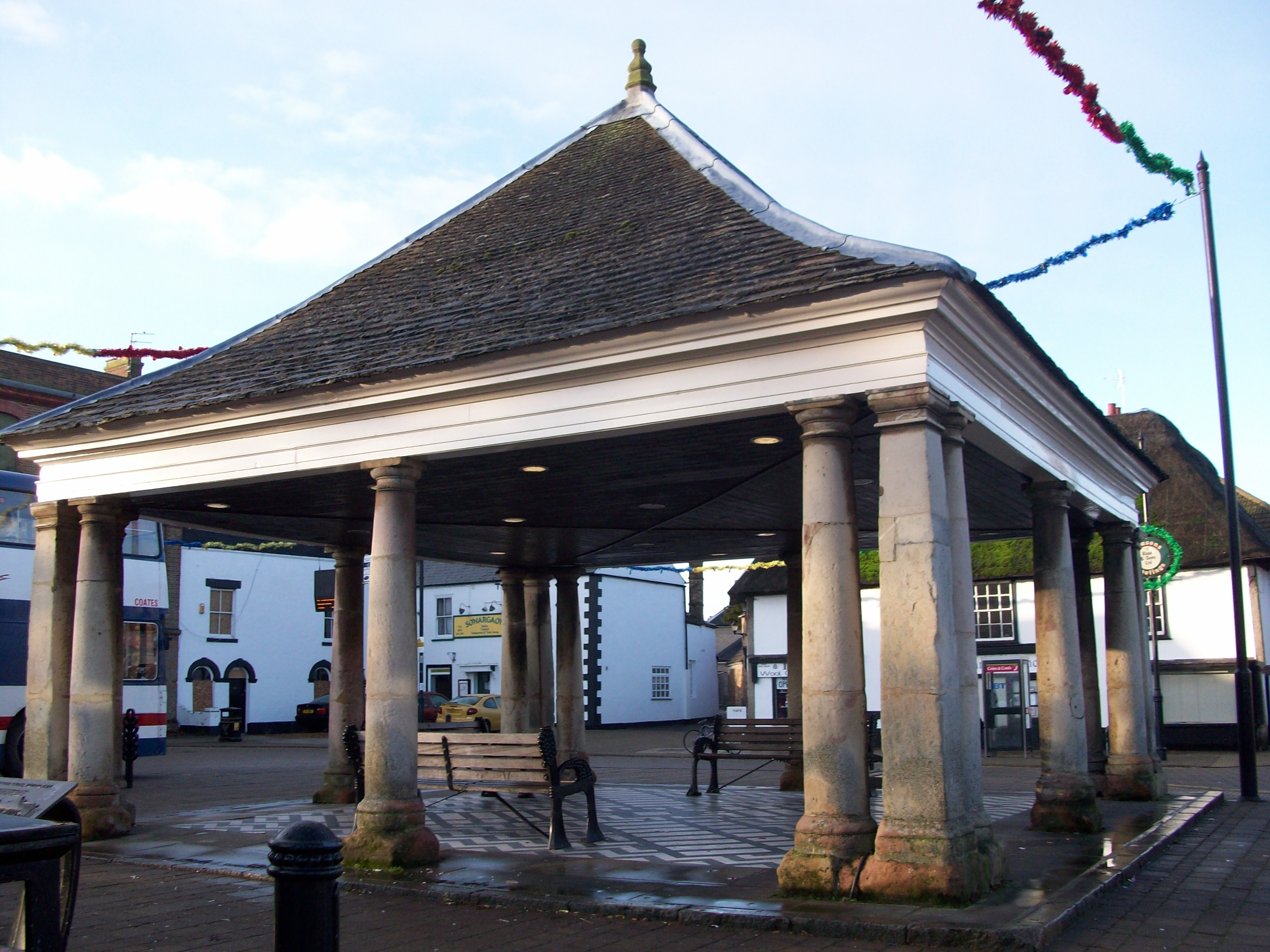 The buttercross in Whittlesey, pictured in 2009.